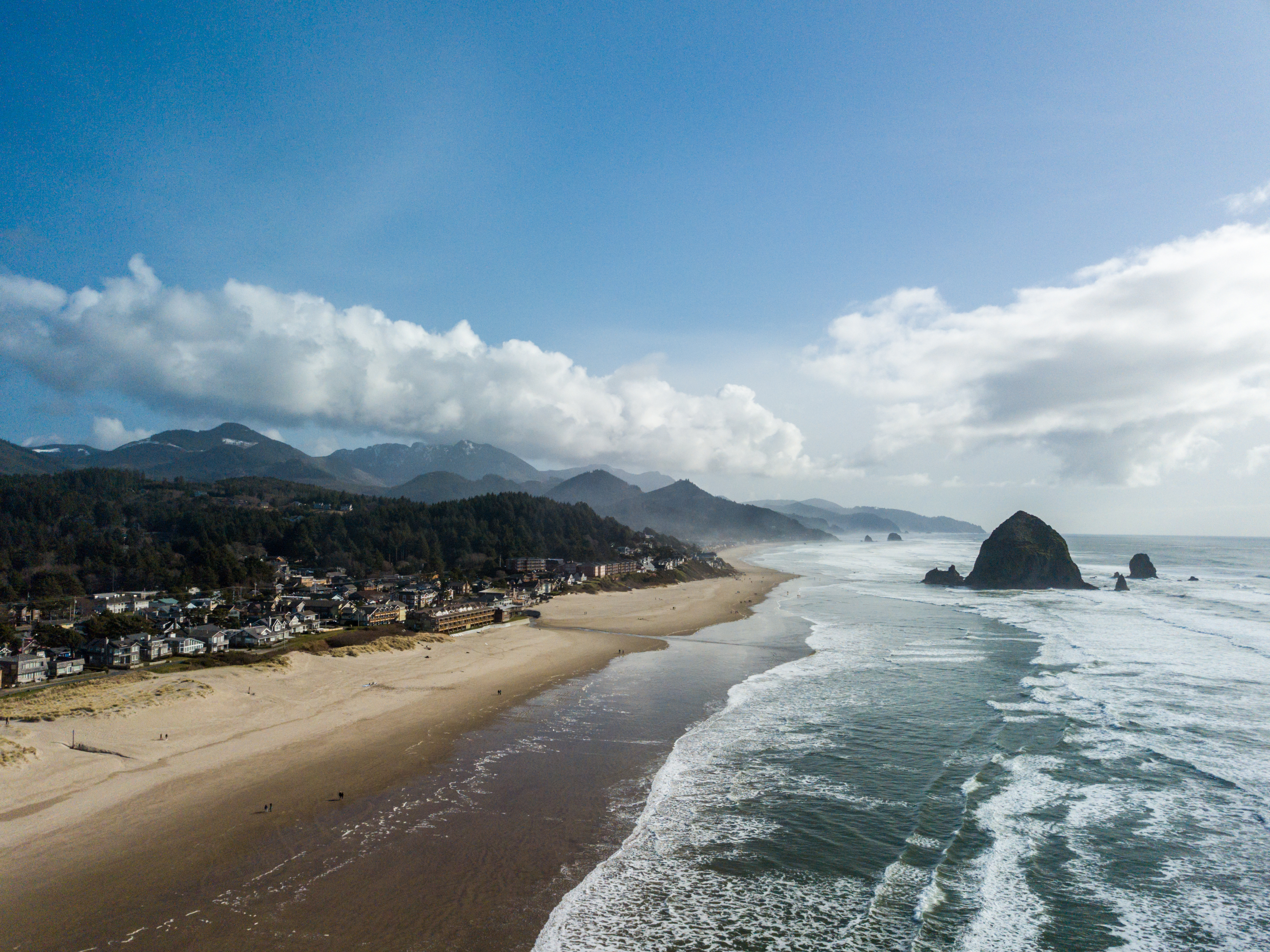 Aerial photograph of Haystack Rock in Cannon Beach, Oregon.